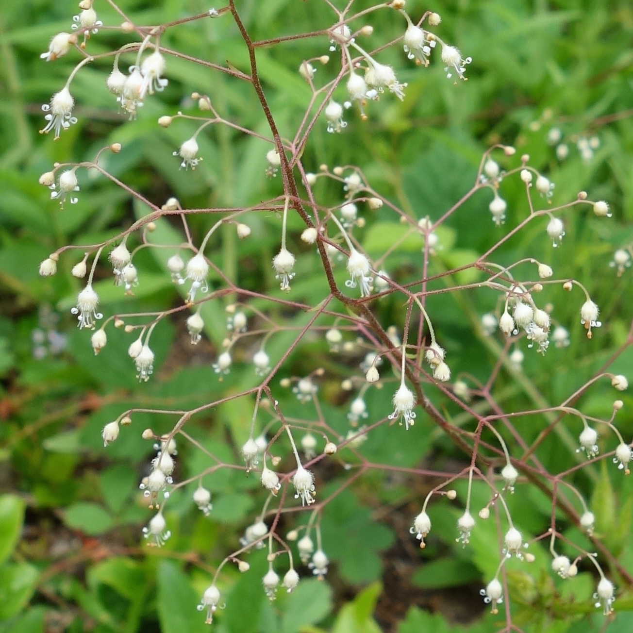 (Heuchera micrantha) Learn more about this plant at NPS Photo